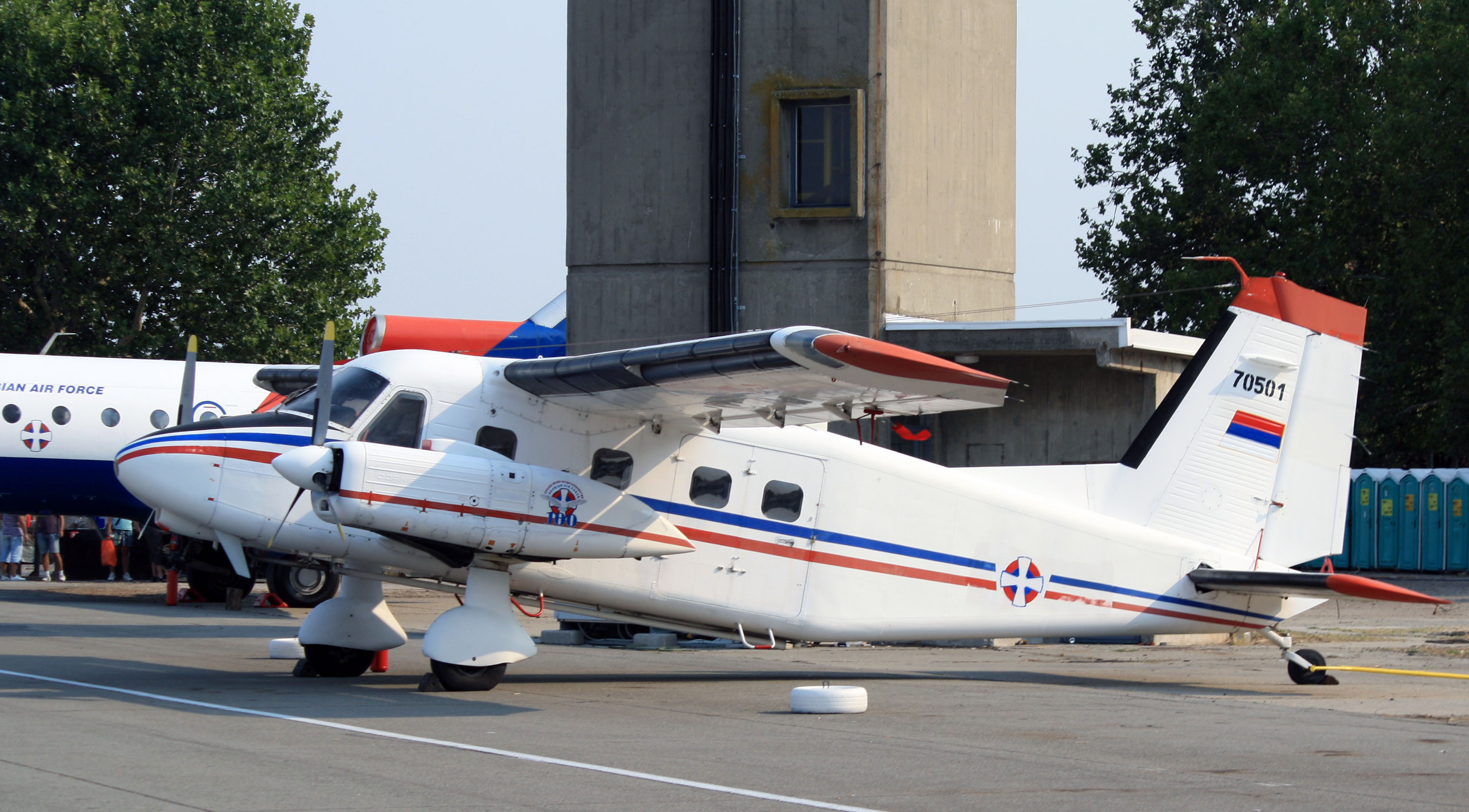 Dornier Do-28D-2 Skyservant No.70501 of 138. Mixed-Transport-Aviation Squadron, 204th Air Brigade of Serbian Air Force, on display at Batajnica Air Show 2012 held to celebrate 100 years of Serbian Air Force.